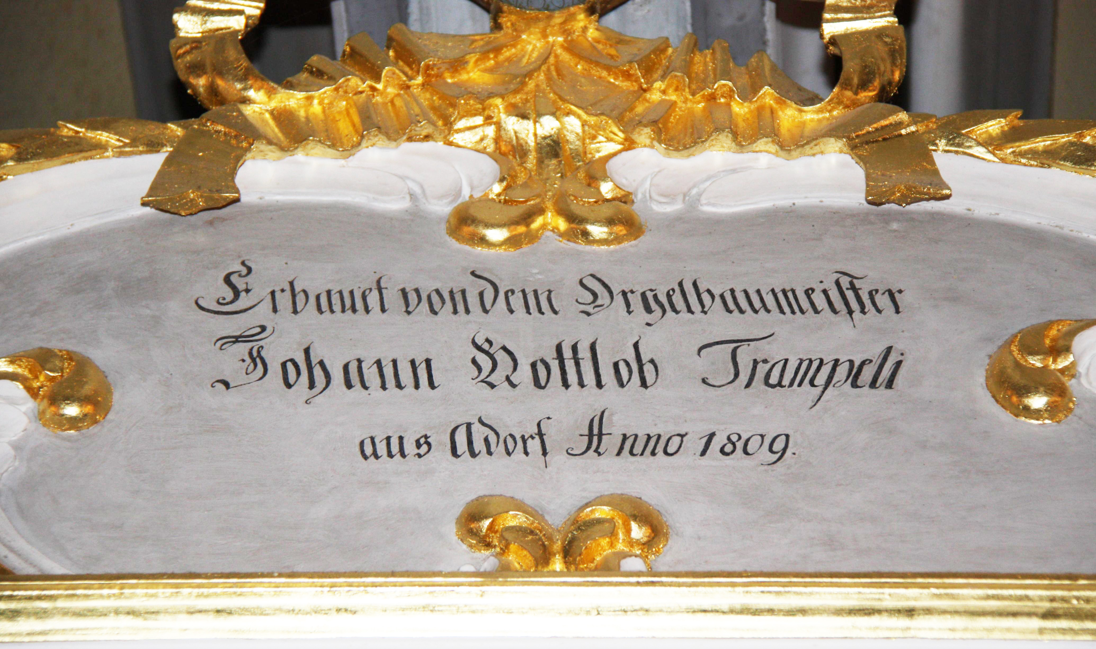 Bernsbach, Trampeli Organ, Detail